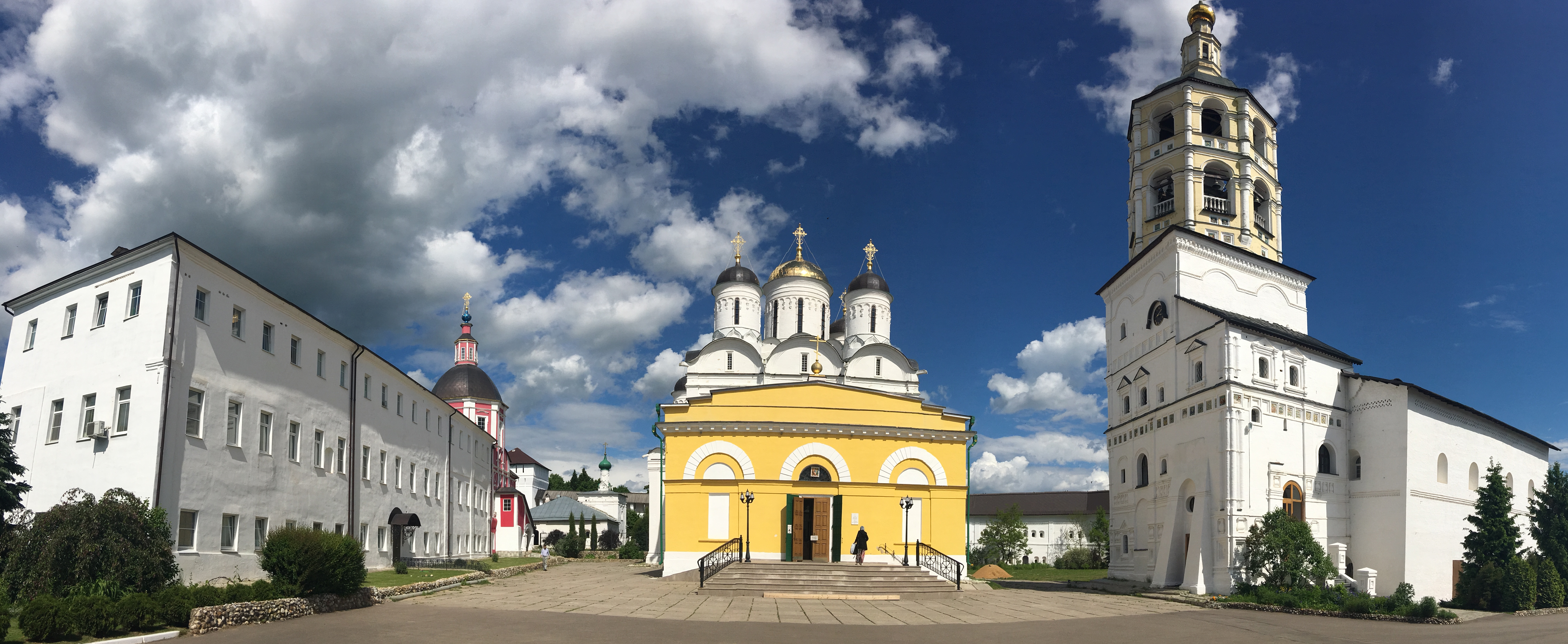 A panorama of St Paphnutius Monastery, Borovsk, Russia